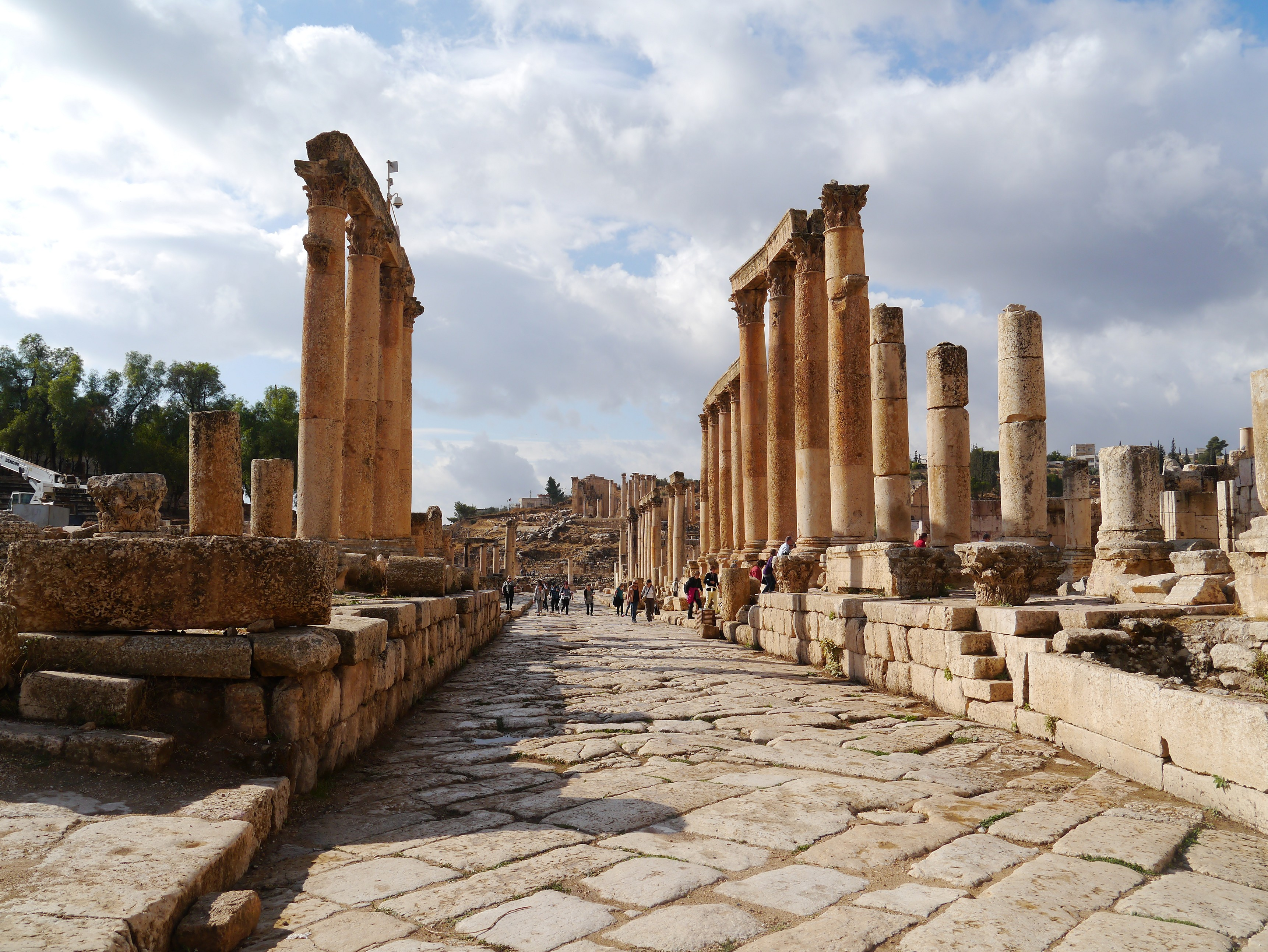 the Cardo, Gerasa/Jerash, North western Jordan